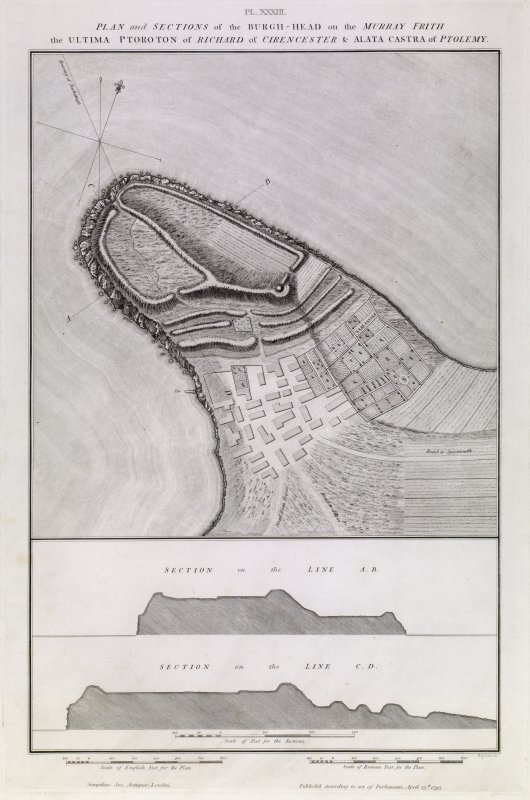 Plan drawn by William Roy of the promontory fort at Burghead, Moray, Scotland, in 1793, shortly before its destruction. Titled "Plan and sections of the Burgh Head on the Murray Frith, the Ultima Ptoroton of Richard of Cirencester and Alta Castra of Ptolemy"